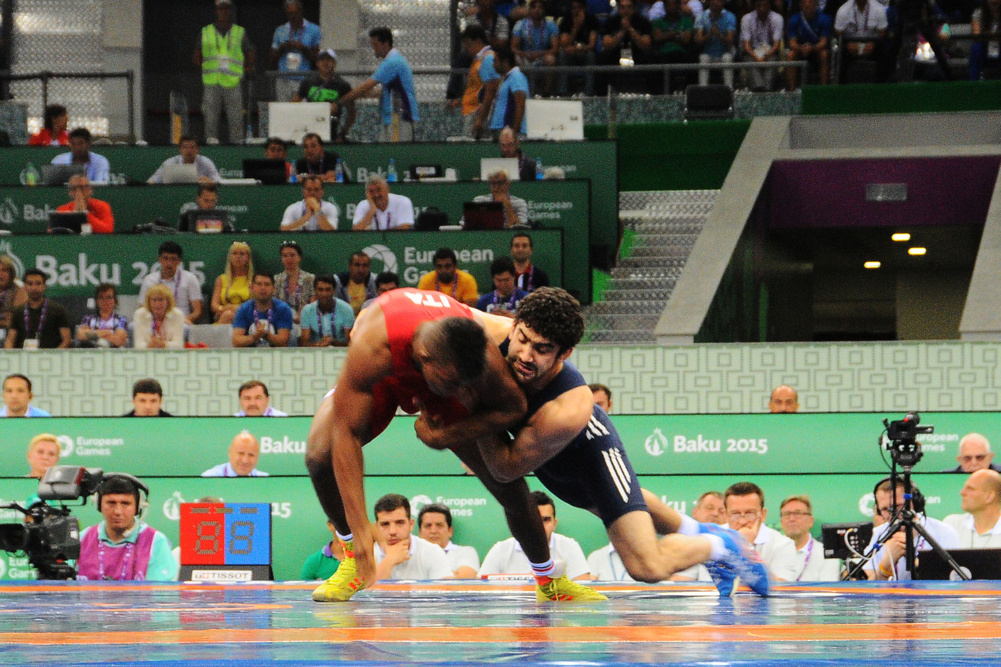 Wrestling at the 2015 European Games